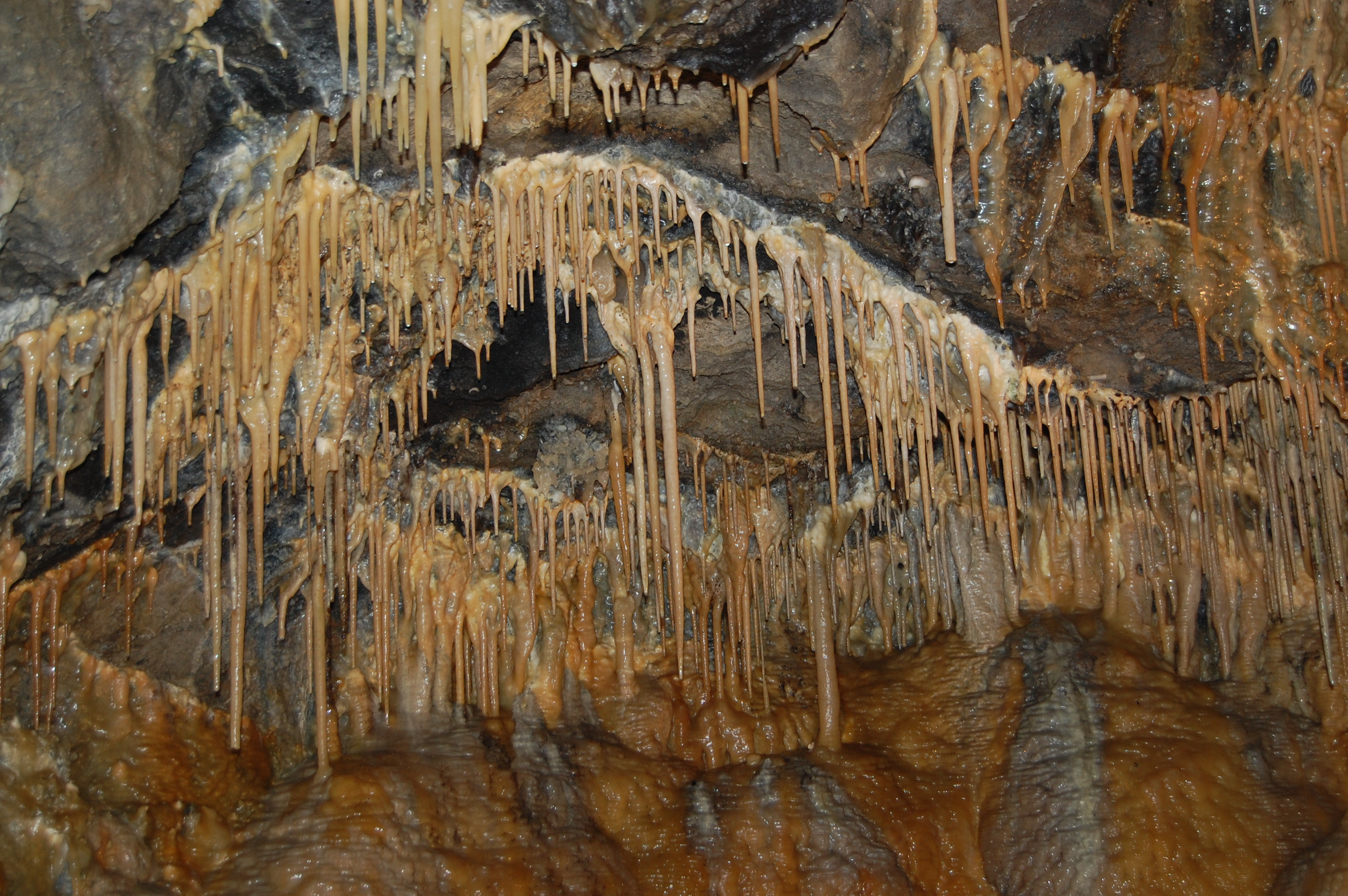 Interior of Treak Cliff Cavern, Derbyshire, England.